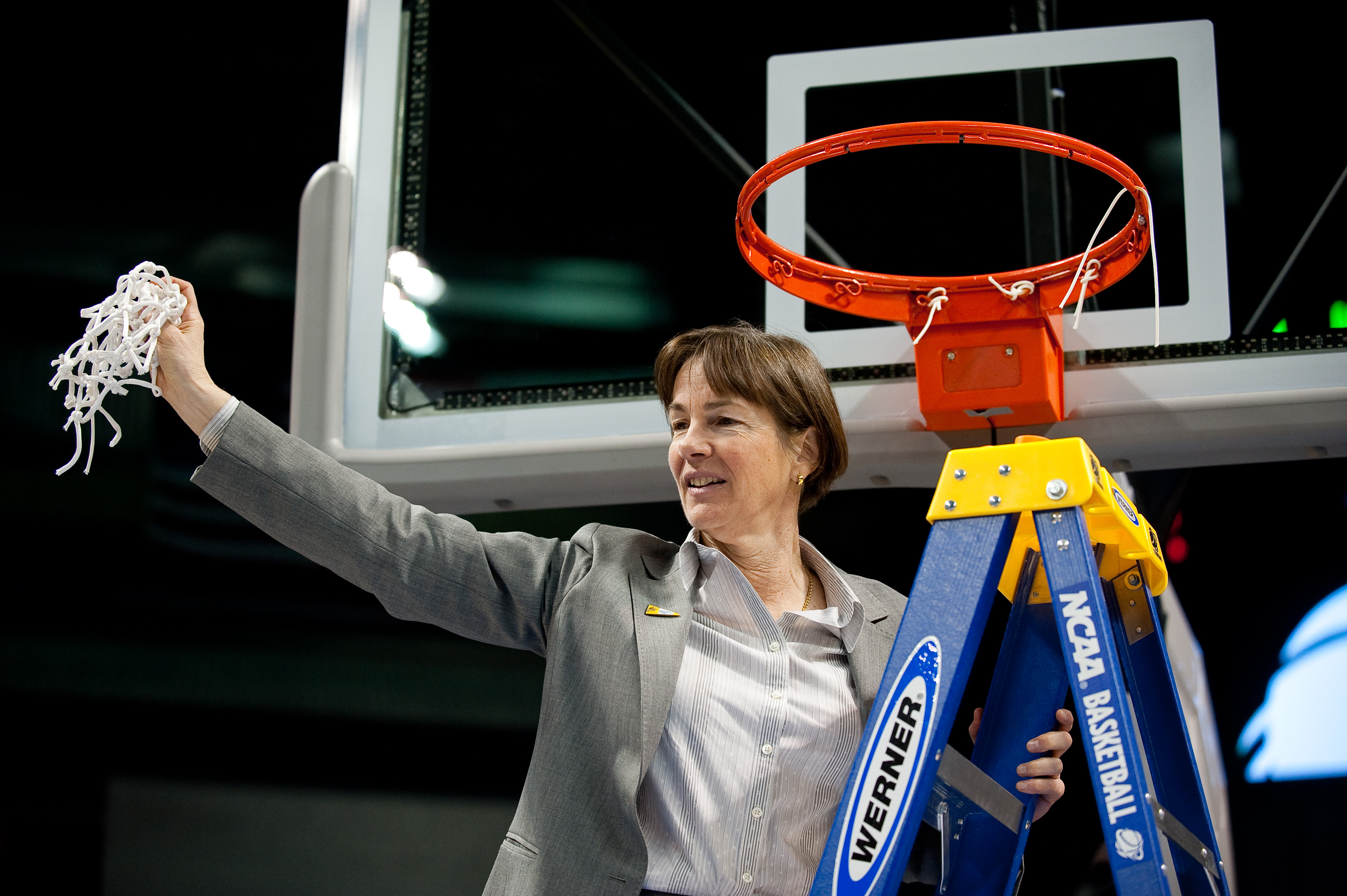 Tara VanDerveer, participating in the net cutting ceremony, after her Stanford Cardinal team won the Spokane Regional in the 2011 NCAA Women's Basketball Tournament March 28, 2011